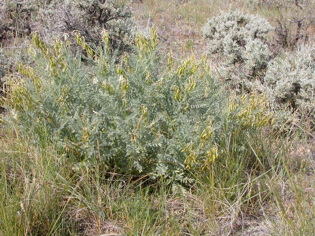 The conspicuously whitish hairy leaves and tall erect stems are characteristic of this species.